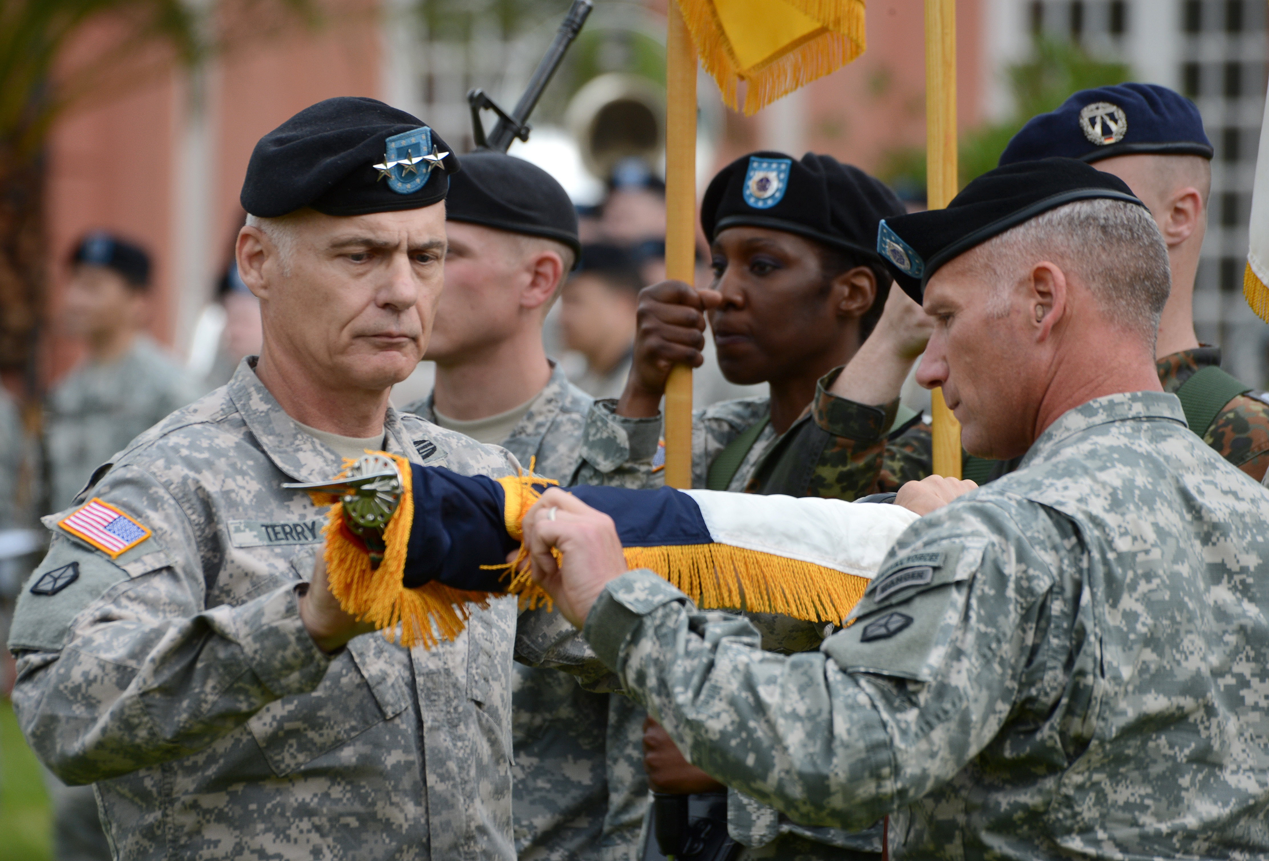 U.S. Army Lt. Gen. James L. Terry, left, the commander of the V Corps and V Corps Command Sgt. Maj. William Johnson case the colors during the inactivation ceremony in front of the Biebrich Castle at Wiesbaden, Germany, June 12, 2013. (U.S. Army photo by Volker Ramspott/Released) Unit: Training Support Activity Europe DVIDS Tags: Germany; Casing of Colors; JMTC; Wiesbaden; VI; Lt. Gen. James L. Terry; TSAE; TSC Wiesbaden; RTSD West; Volker Ramspott; Command Sergeant Major William Johnson; V Corps Inactivation Ceremony